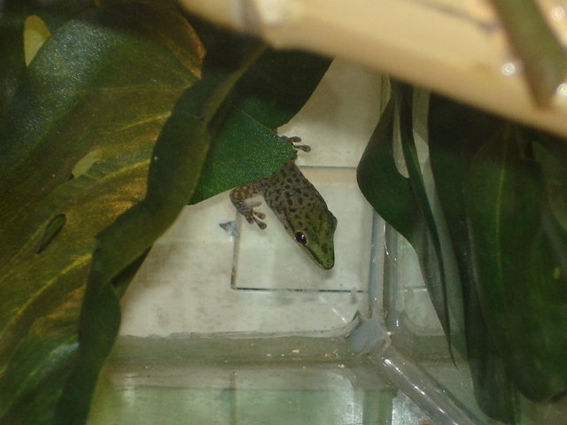 My female Gecko (Phelsuma guttata)